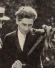 Still from the American drama film Sowing the Wind (1921) with director John M. Stahl examine the film from one "take," on page 106 of the September 11, 1920 Exhibitors Herald.